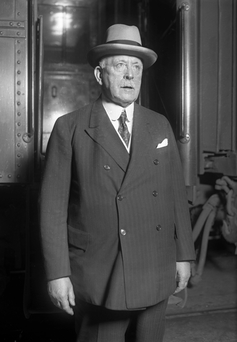 Title: 3/4 length portrait of U.S. Steel president James A. Farrell in front of train, circa 1920 Publication:Los Angeles Times Publication date:1920 Notes:Handwriting on negative states "James A. Farrell" Farrell US Steel"